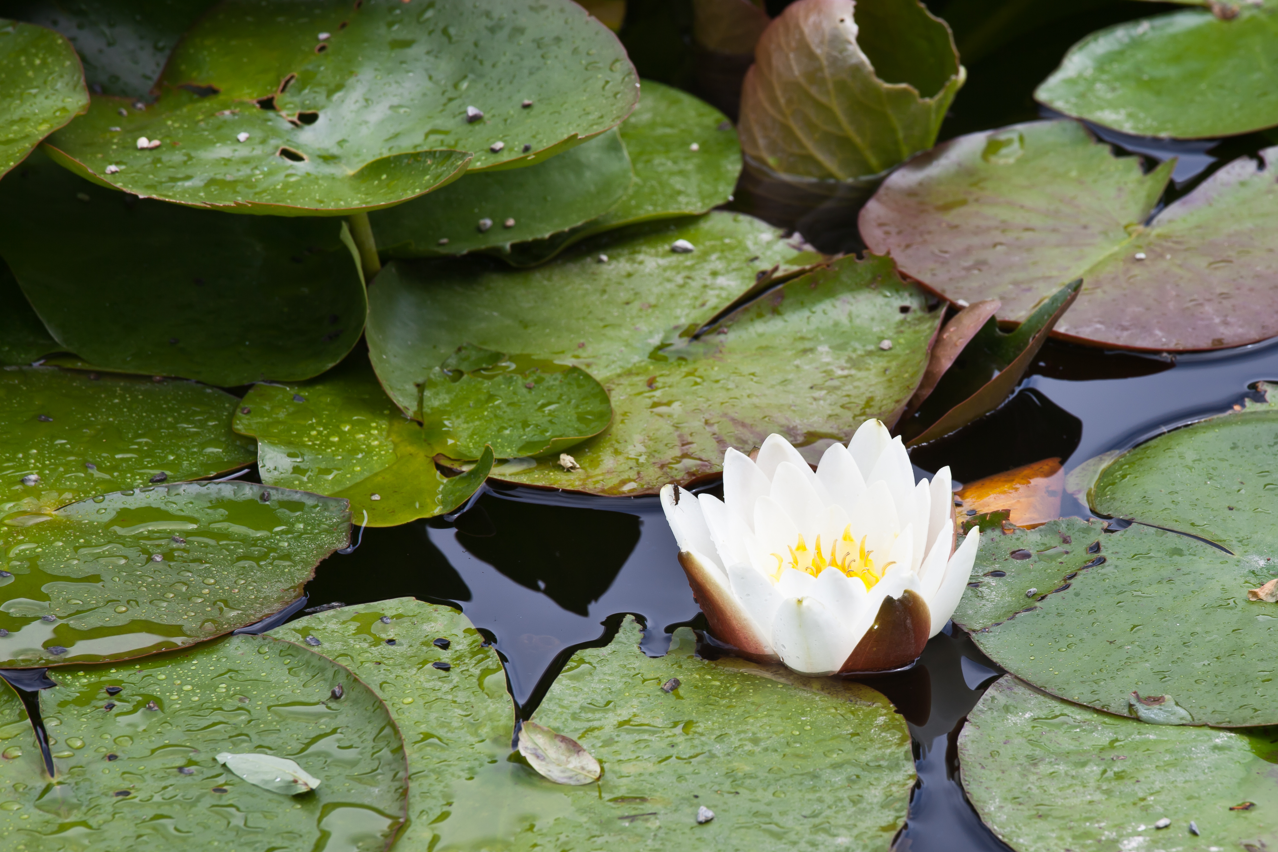 Nymphaea alba, A Arnoia